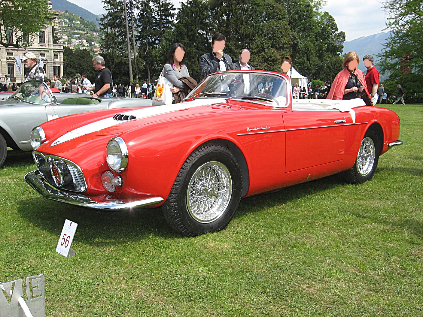 Subject:Maserati A6G54 Cabriolet, coachbuilding by Frua Date:April 27th, 2008 Event:Concorso d’Eleganza”Villa d’Este” 2008 Place/Country: Cernobbio (CO), Italy I release all rights in the public domain.